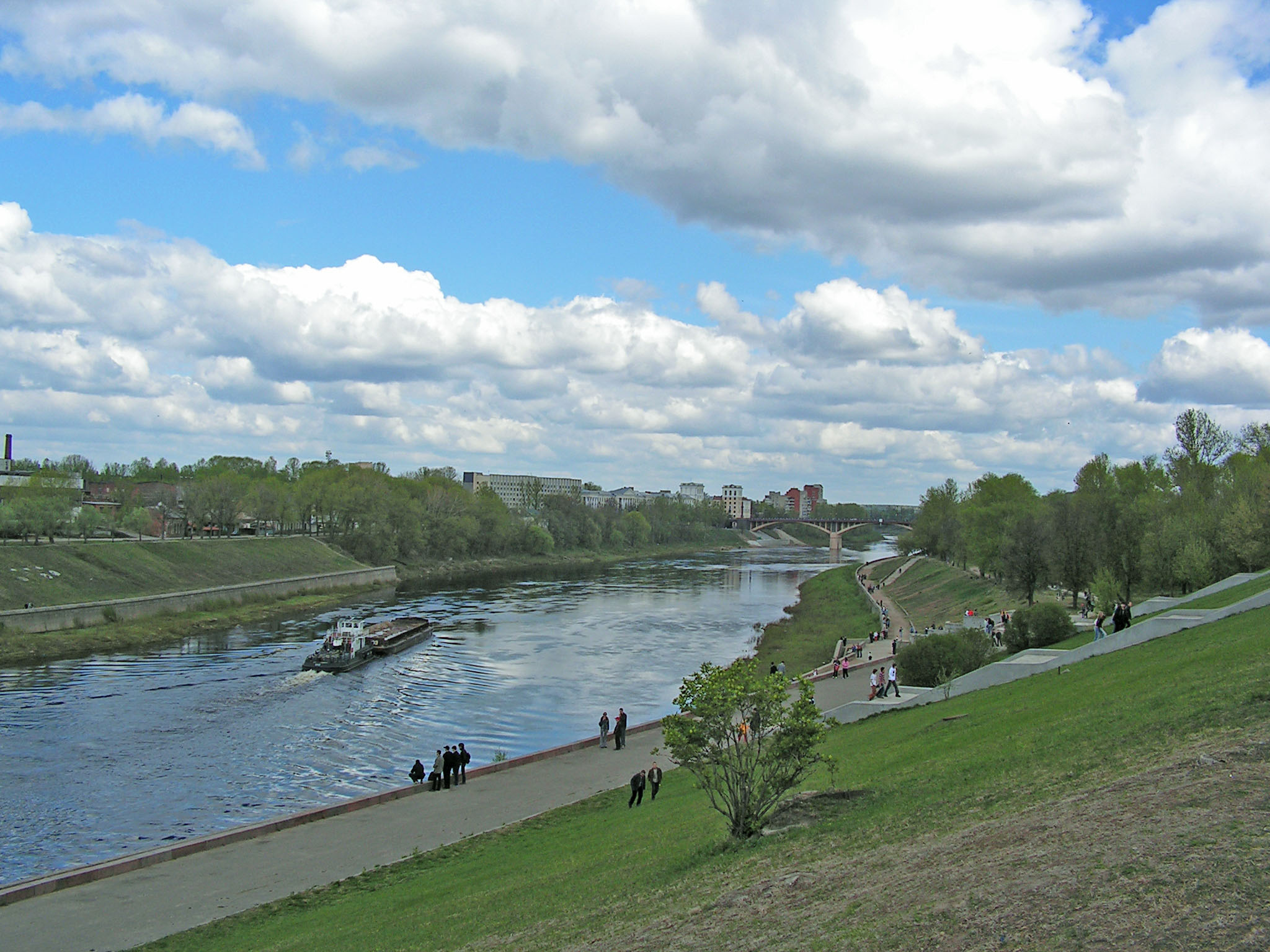 Western Dvina River in Vitebsk